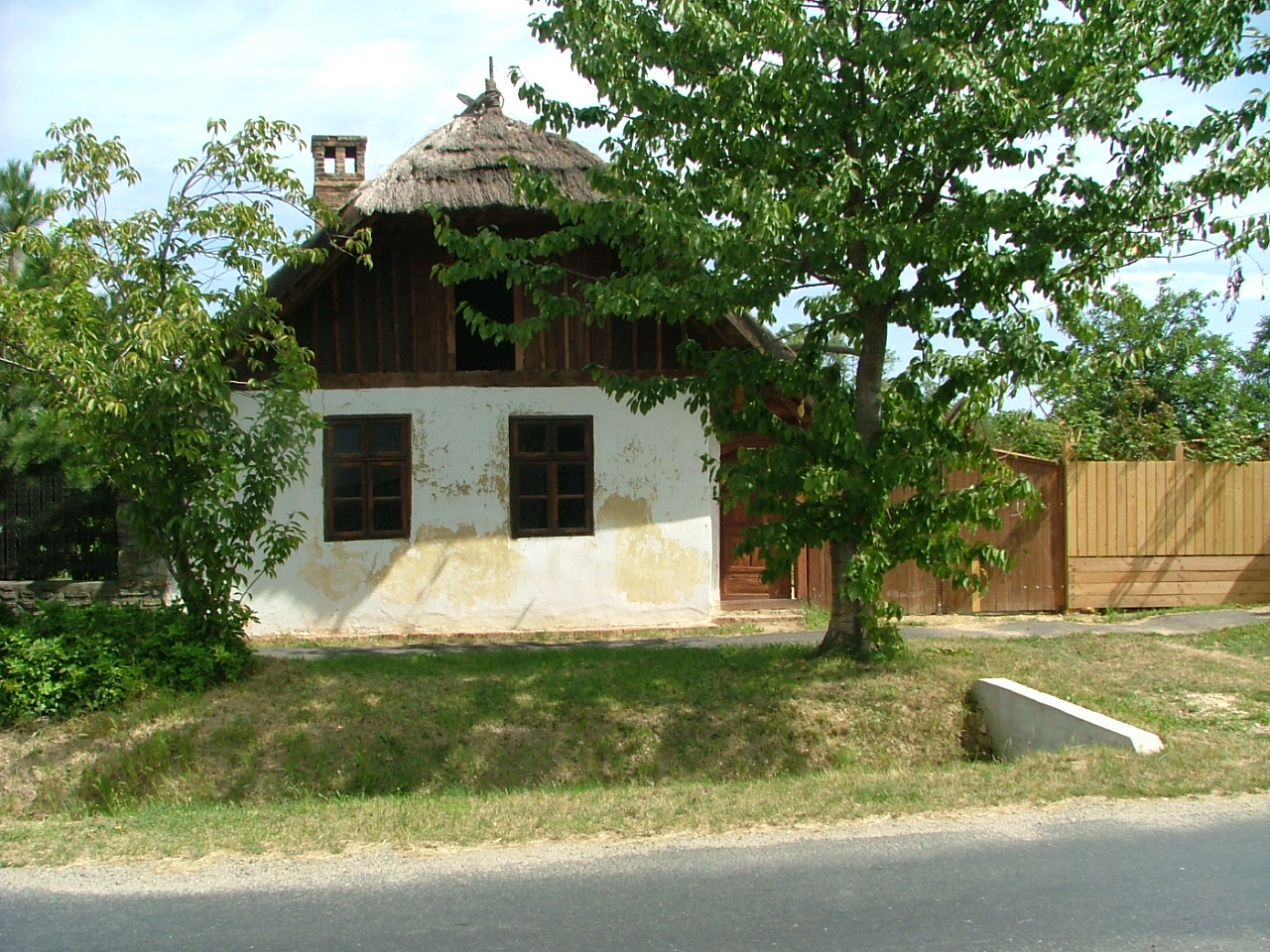 Újkér; old house of a peasant This is a photo of a monument in Hungary, Identifier: 5165